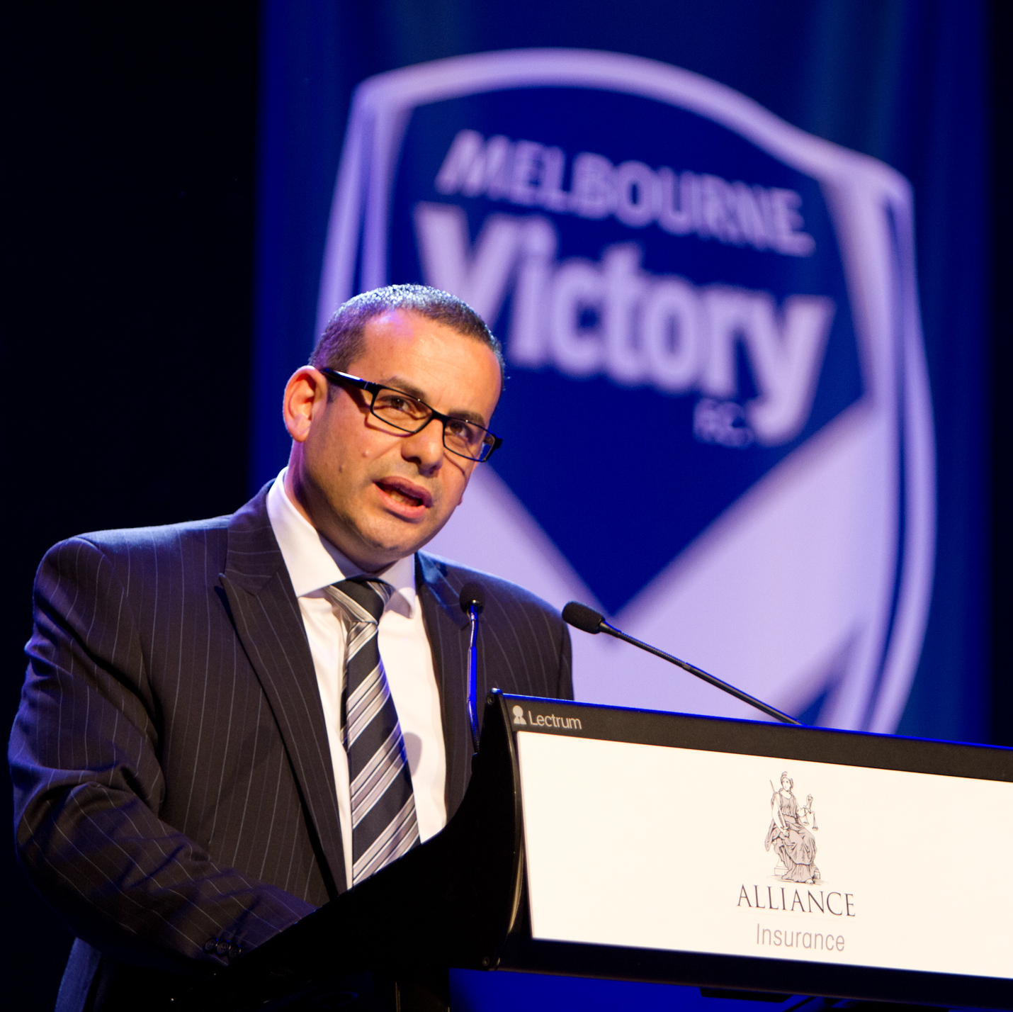 Anthony Di Pietro addresses the audience at a Melbourne Victory Function, November 2012